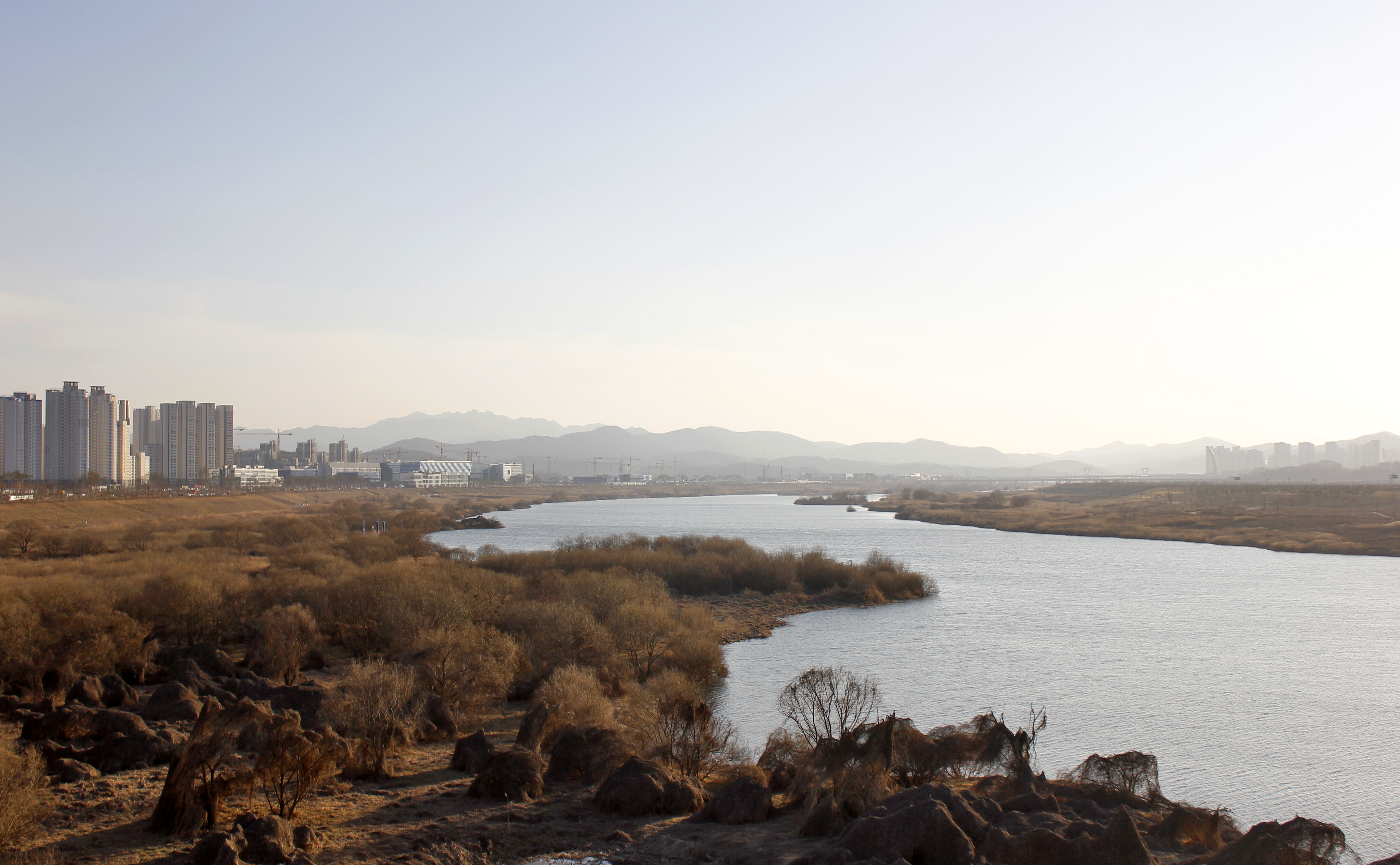 Geumgang(river) at Yeongi-myeon, Sejong